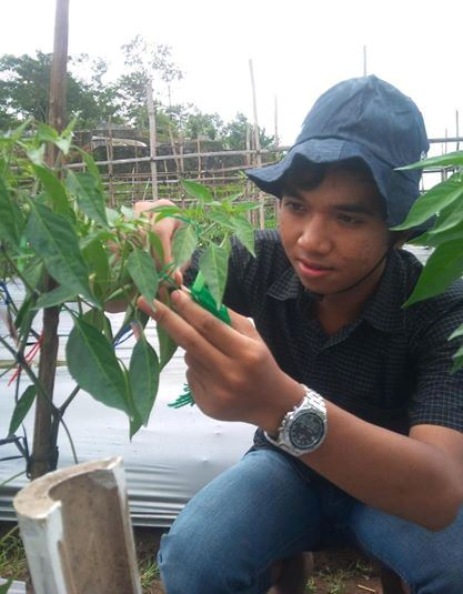 Rizqi Fadillah Romadhona (my self) was crossing the papper plant